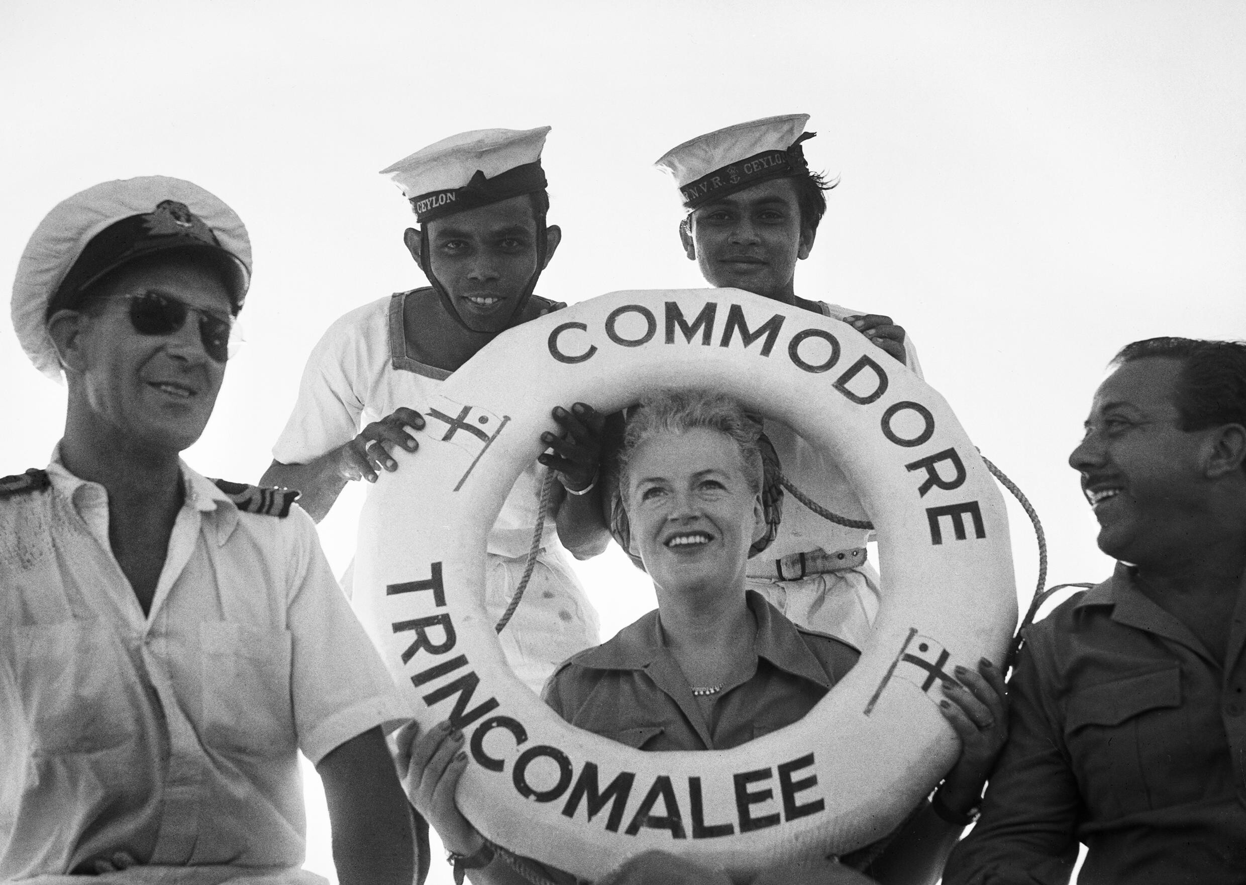 Gracie Fields poses with a group of sailors in Trincomalee Harbour, Ceylon, during a visit to the British East Indies Fleet, 20 October 1945. Wartime Entertainers: Music hall star Gracie Fields and a group of sailors pose with a lifesaver from the Commodore's Barge in Trincomalee Harbour, Ceylon during a visit to the British East Indies Fleet.